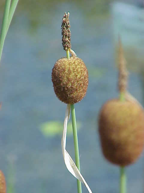 Species: Typha minima Family: Typhaceae Image No. 1